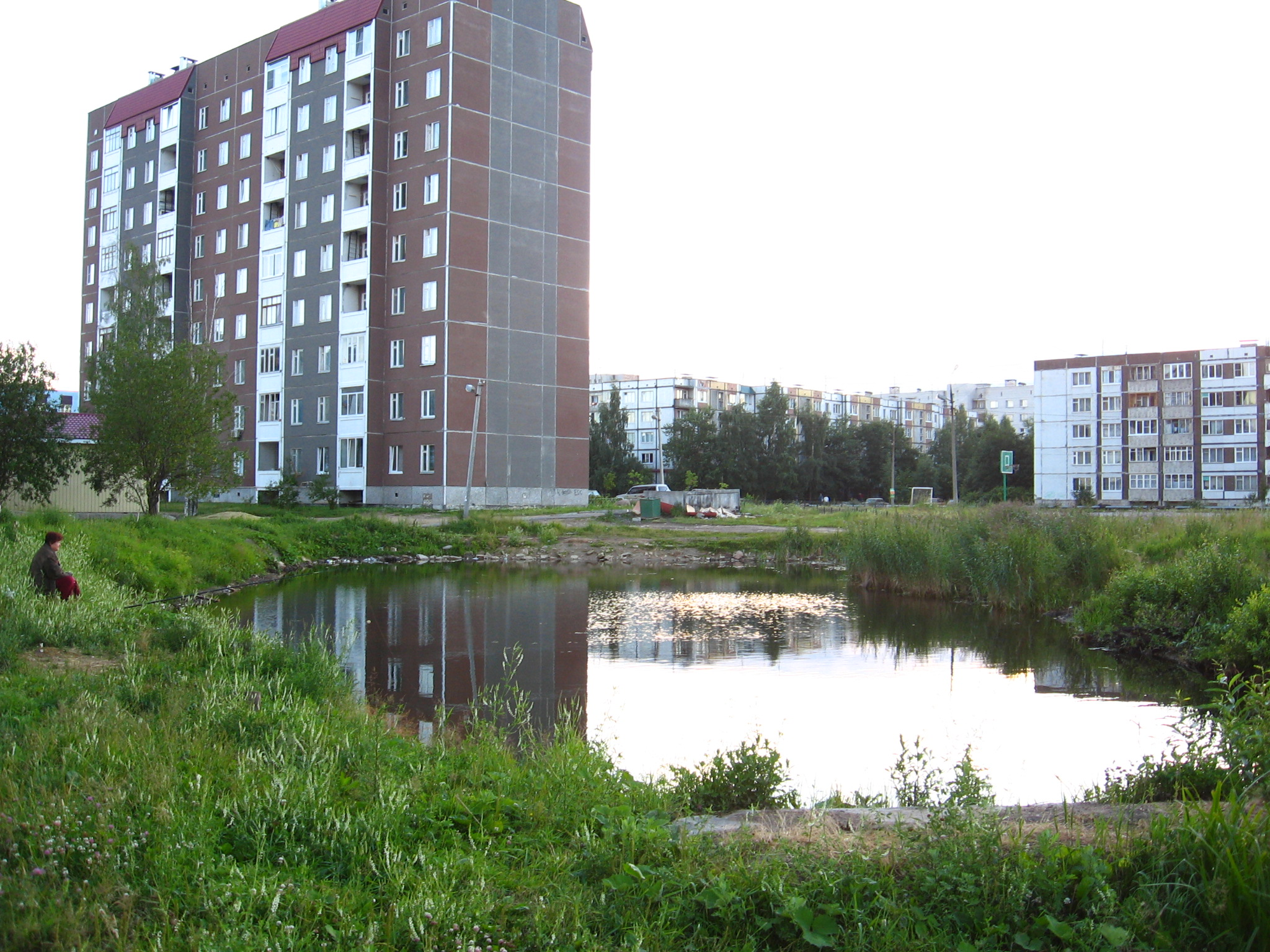 Pond in Vjezd microryon in Gatchina